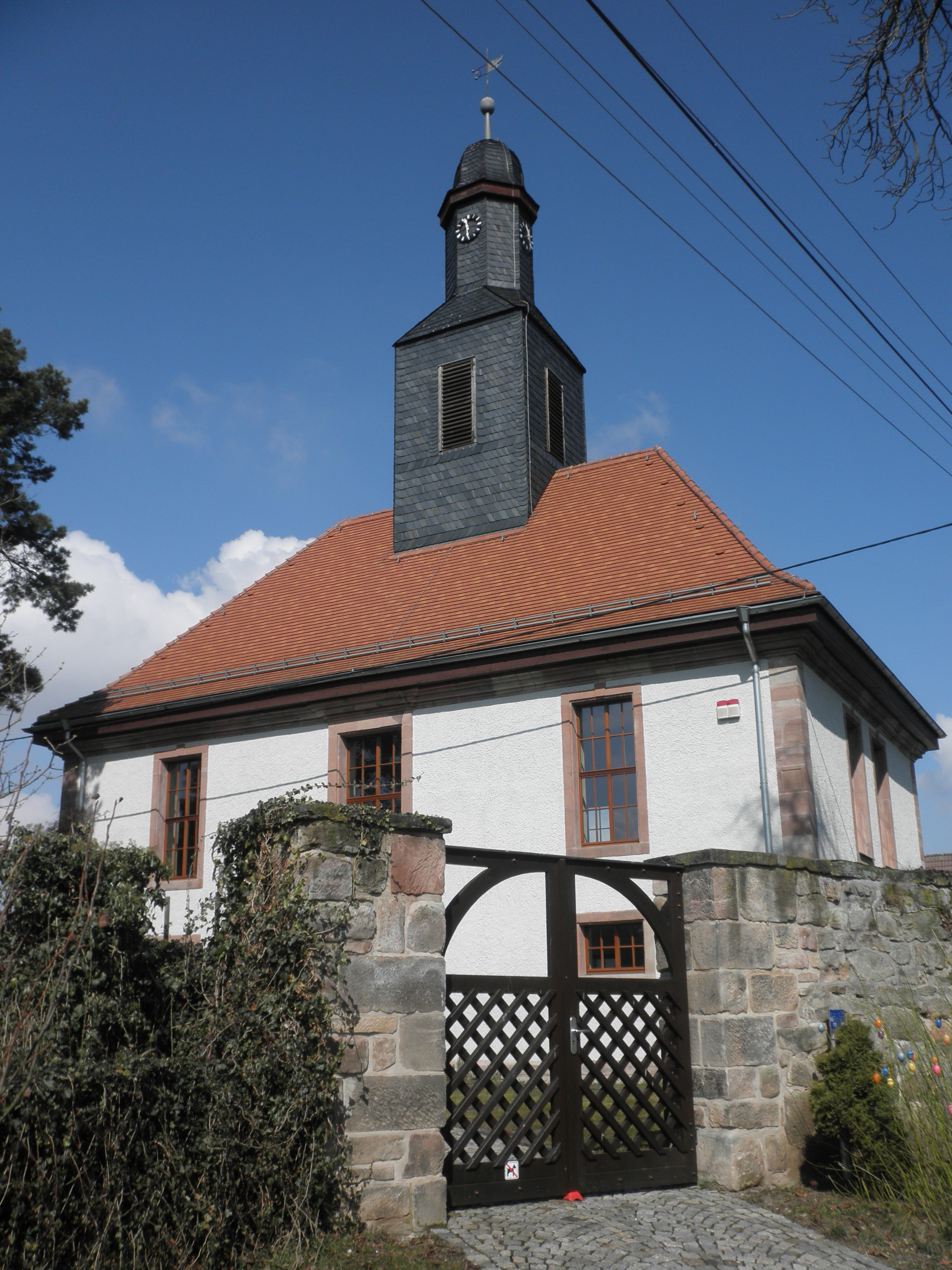 Church in Jägersdorf in Thuringia